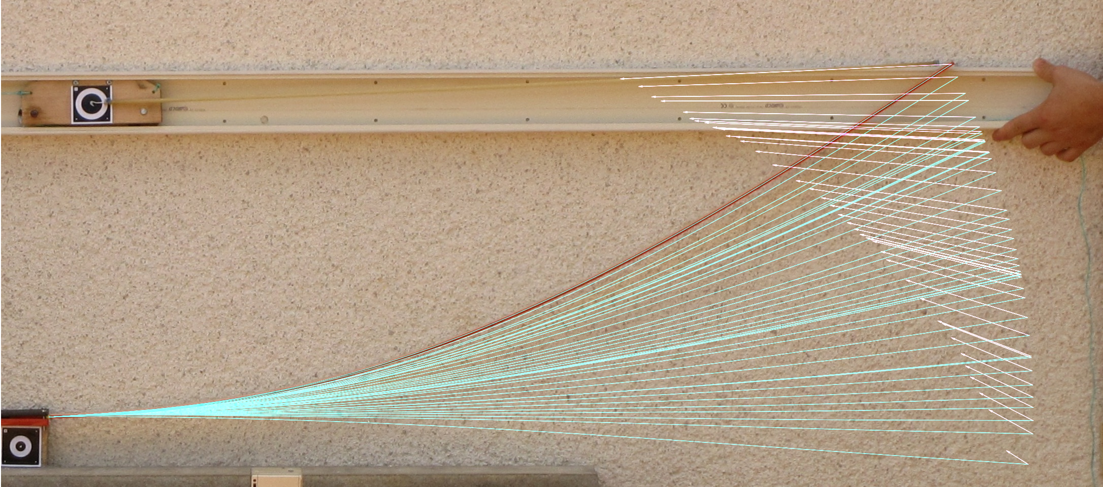 This is from an experiment I made for my thesis in the field of nonlinear elasticity. It is a thin wooden beam fixed on one end. Force is applied trough a rubber band on the other end. The amount of force is determined from its current length and a separate stiffness experiment. The curves were extracted from several pictures using openCV machine vision library and afterwards approximated by parametric 8-degree polynomials in x and y directions. Software was scripted in Python2 and image processing was done in Gimp.